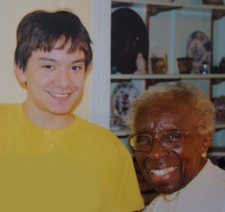 The late piano teacher and civil rights activist Capitola Dickerson (right) with one of her pupils, Samuel Sulcer.